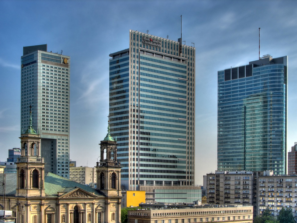 Warsaw Downtown skyline